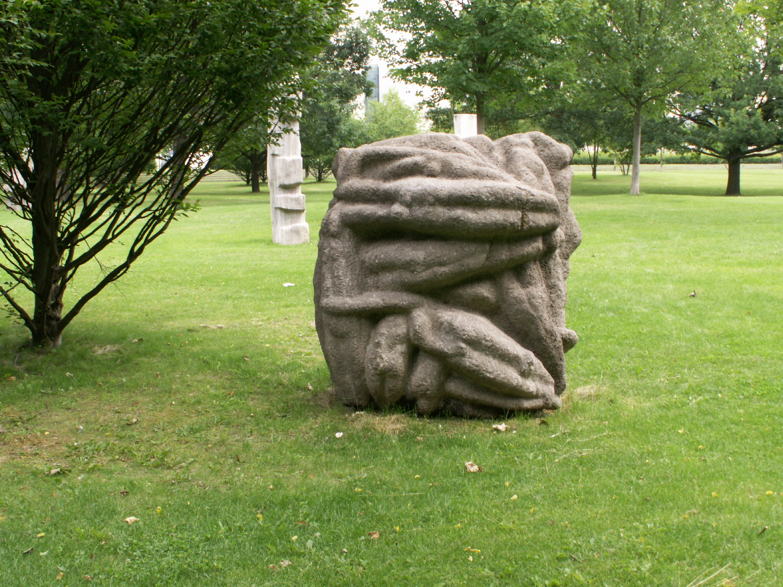 Rüdiger-Utz Kampmann, Germany, Berlin, „Symposion europaeischer Bildhauer“, 1961/63, untitled